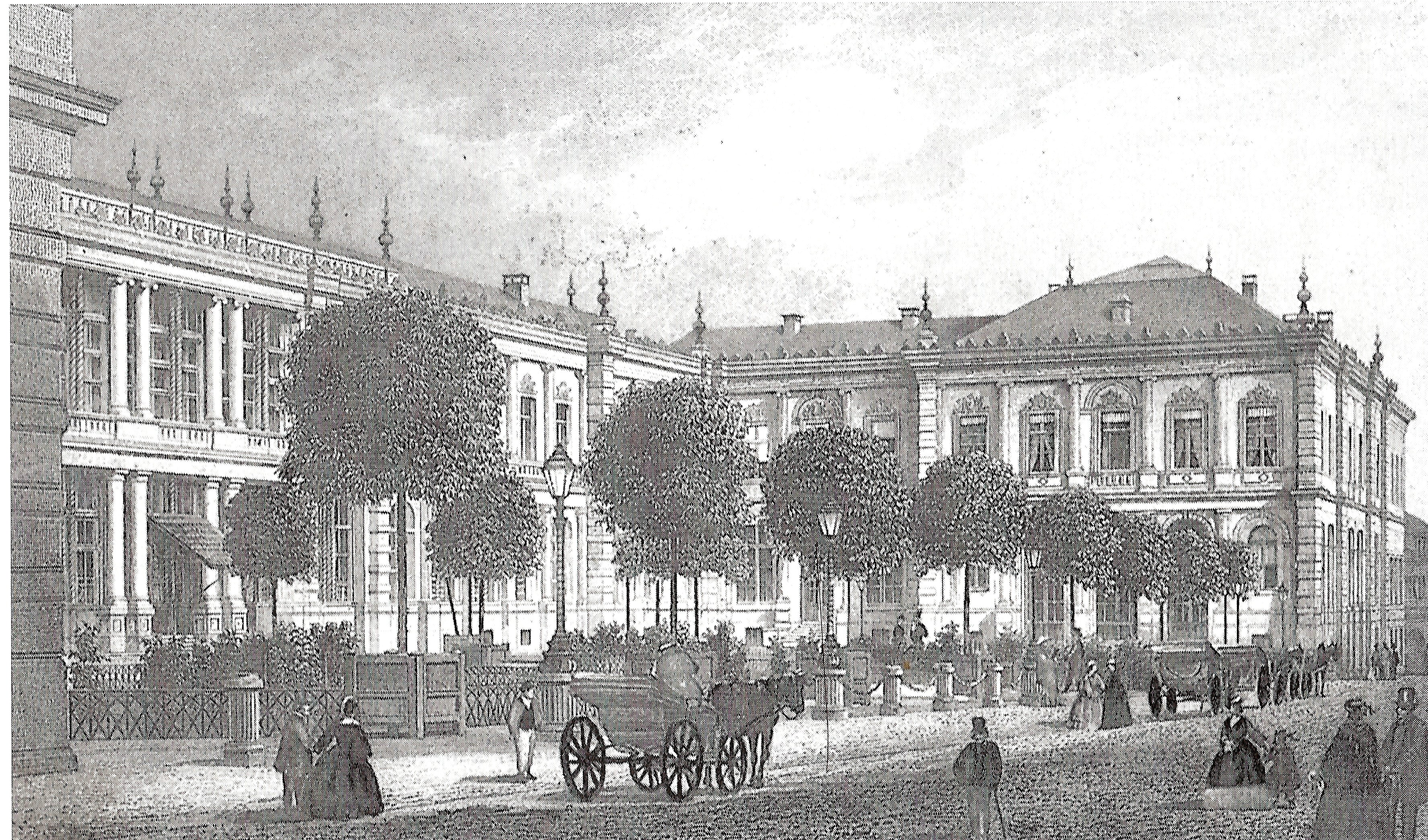 Kurhaus (Spa centre) of Bad Homburg, Germany, about 1865; steel engraving; artist unknown